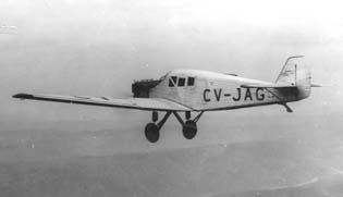 CV JAG